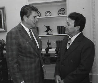 Ronald Reagan and Paul McDonald Calvo in Oval Office in 1981